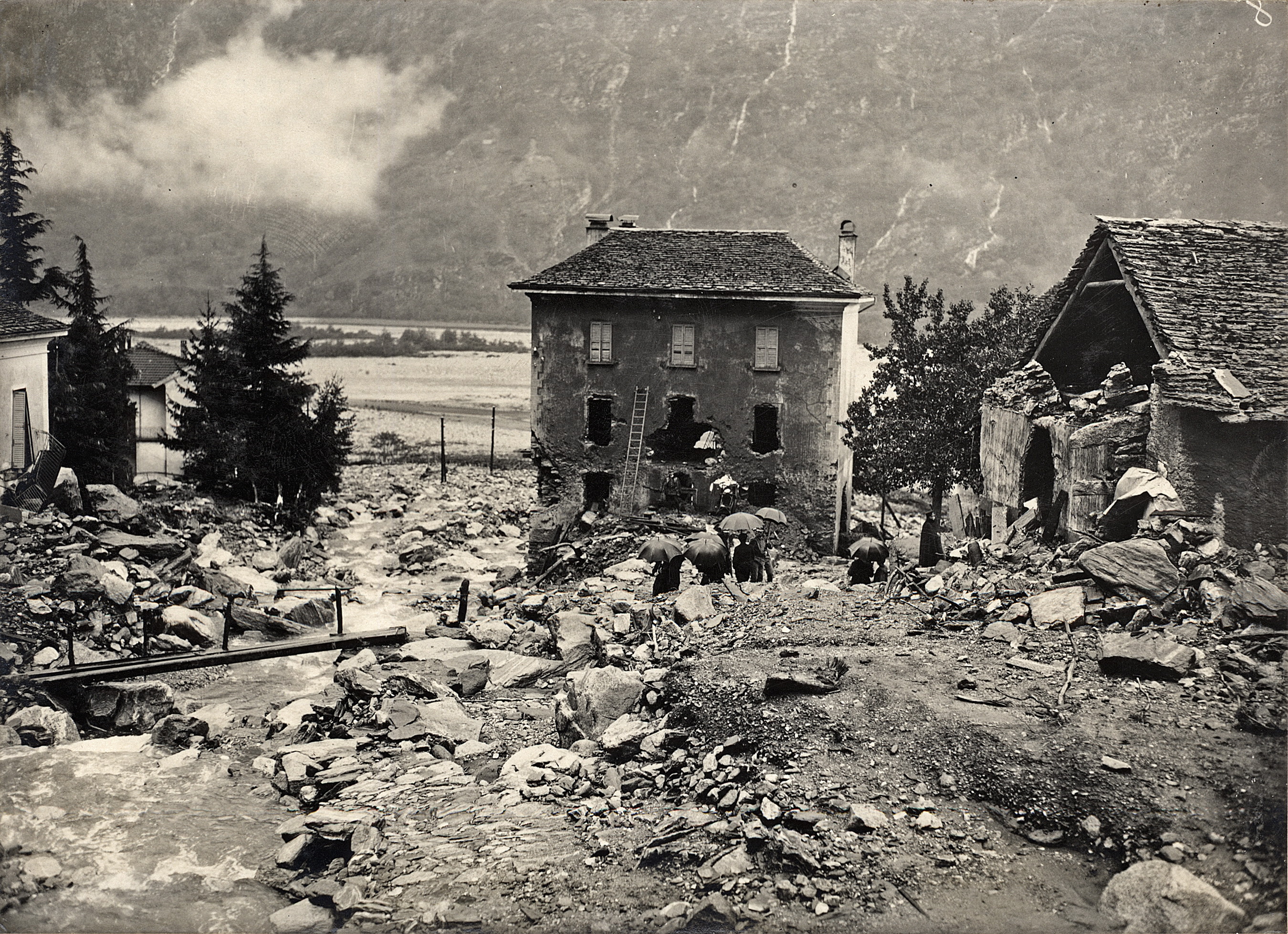 The village of Someo after the September 24th, 1924 flood.